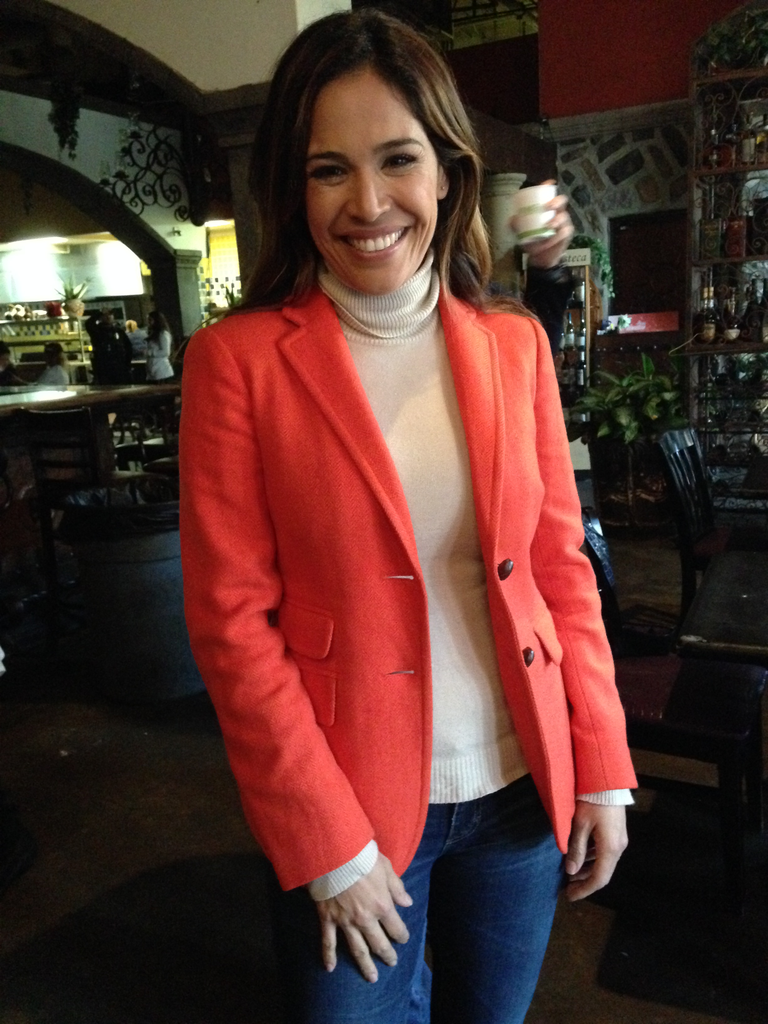 Karla Martinez is a Tv Host